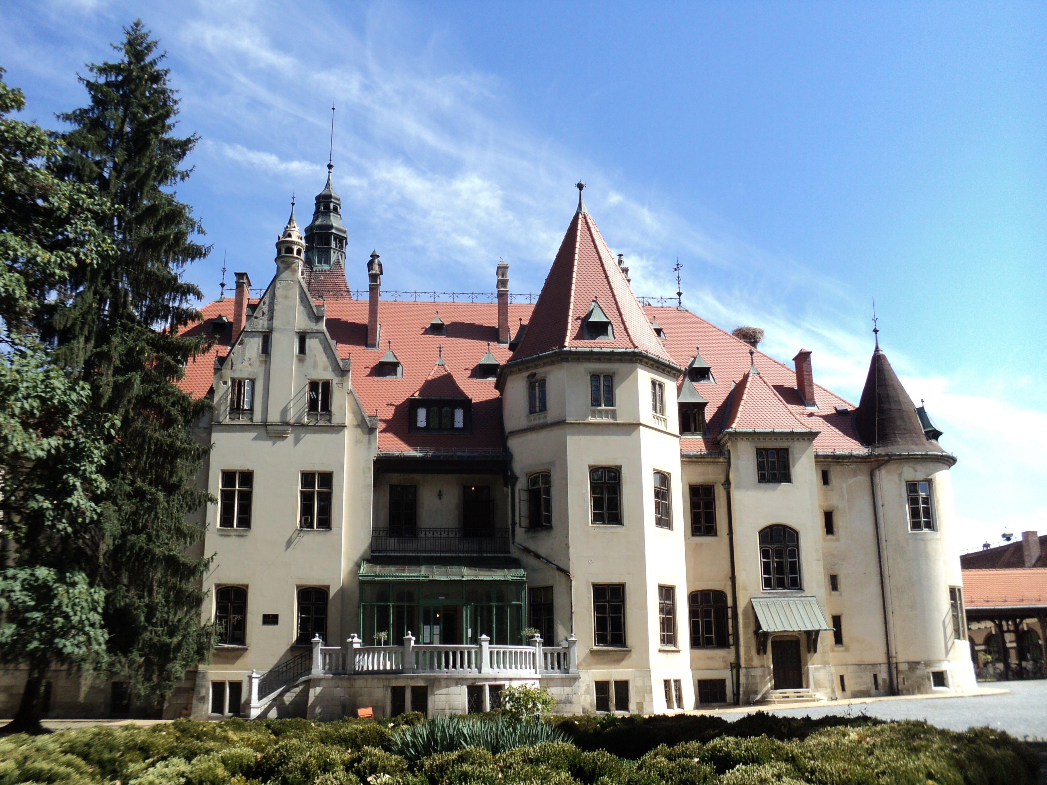 View at the western side of the Mailath castle in Donji Miholjac.